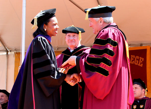 Secretary Rice receives her honorary degree from Boston College in 2006.